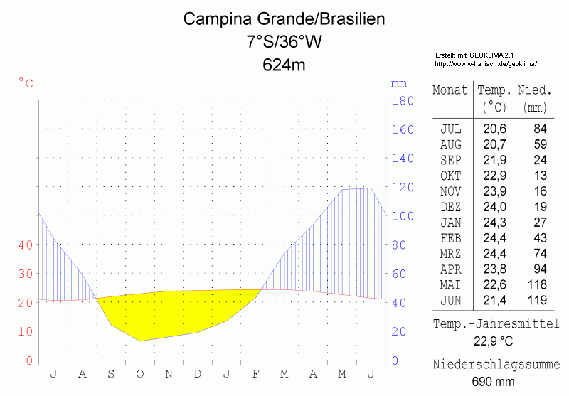 climate chart in the format by Walther and Lieth, metric, °Celsisus and millimeters, made with Geoklima 2.1